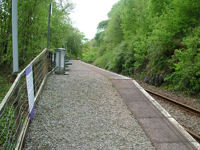 Falls of Cruachan railway station Original description: Rail station at the Falls of Cruachan The helpful sign here reminds us that there is no taxi rank nearby!